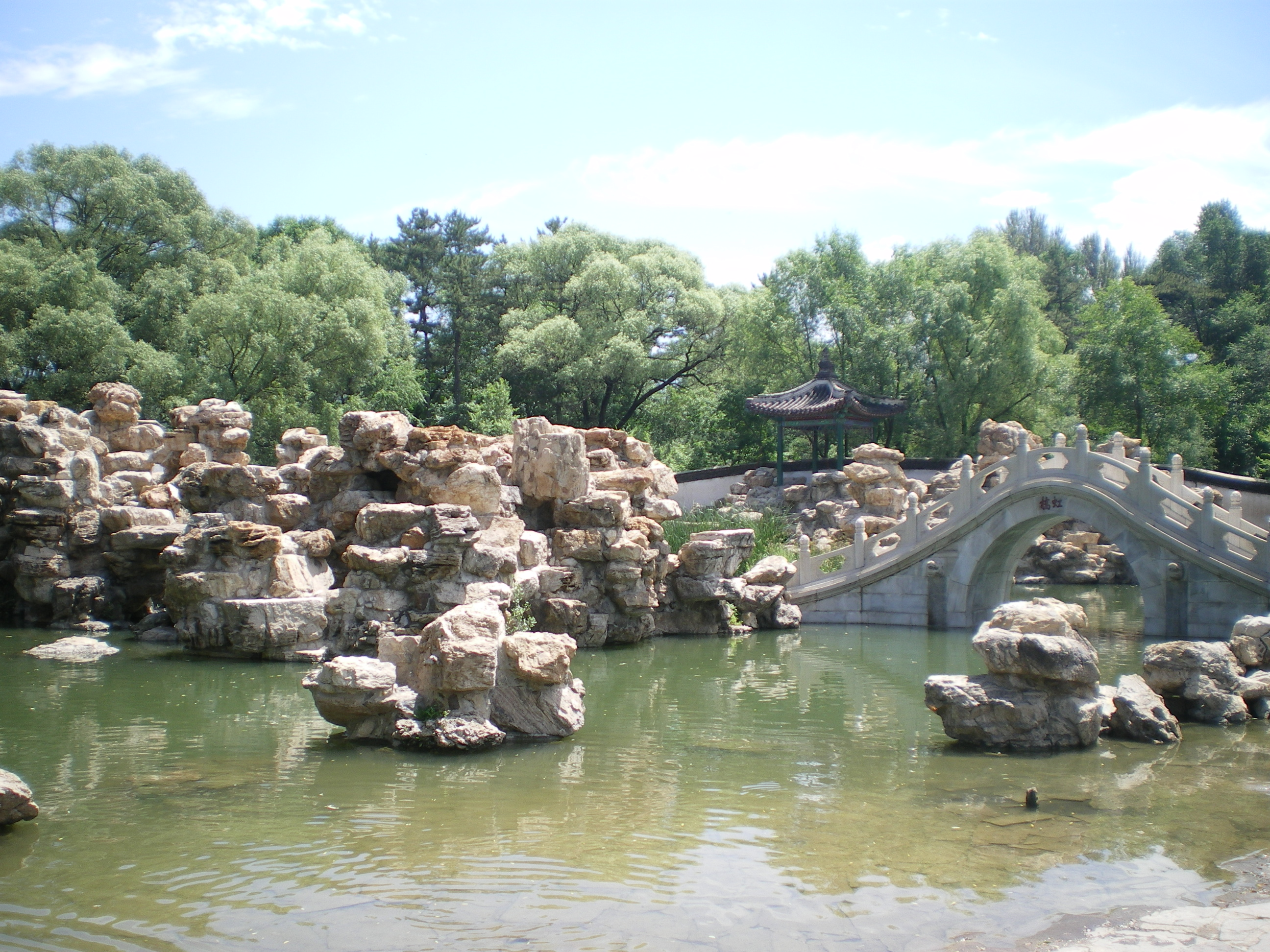 The Mountain Resort in Chengde.